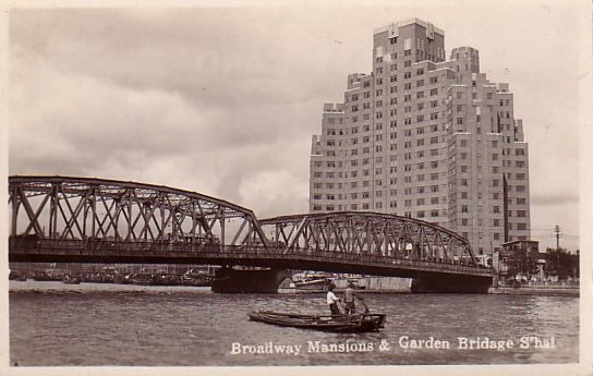 Photo created around 1930 (Appears to be a scanned postcard John Smith's 11:56, 9 August 2006 (UTC))